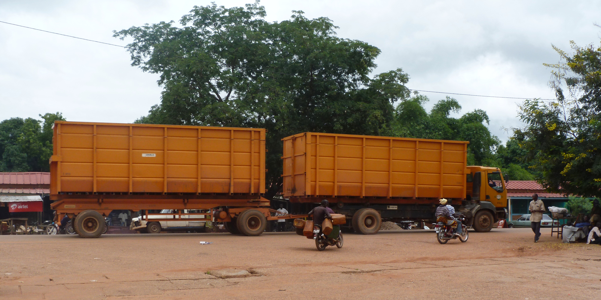 This is an image with the theme "Africa on the Move or Transport" from: Burkina Faso